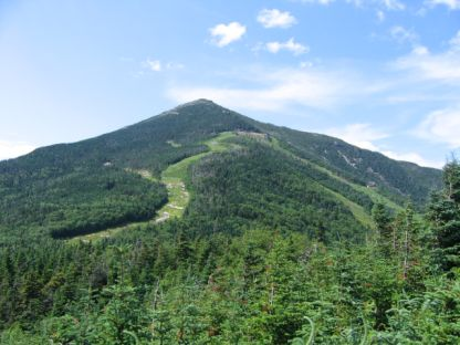 Whiteface Mountain, New York, USA. Taken from Little White face.